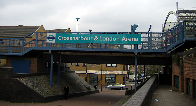 Crossharbour DLR taken by C Ford, March 04.